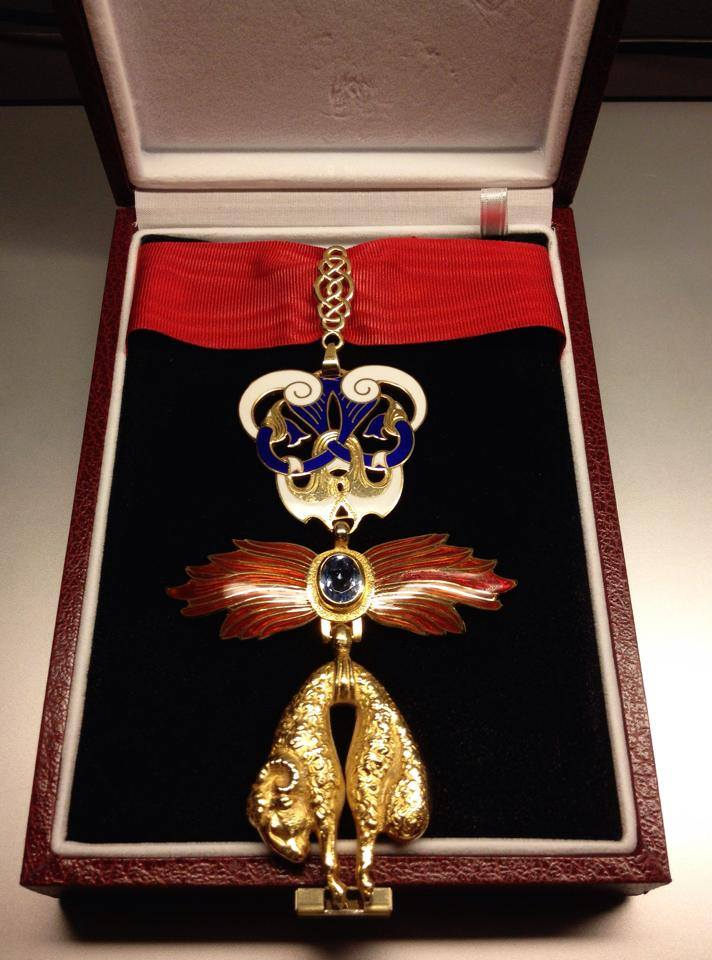 Venera de la Orden del Toisón de Oro, en mi colección particular.